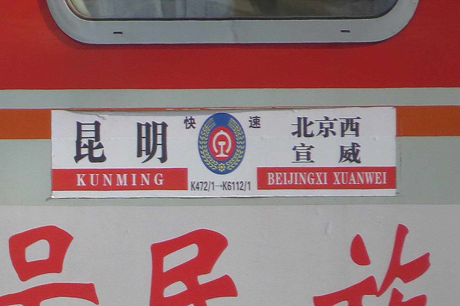 K472 has a longer mileage, and K473 is another issue.